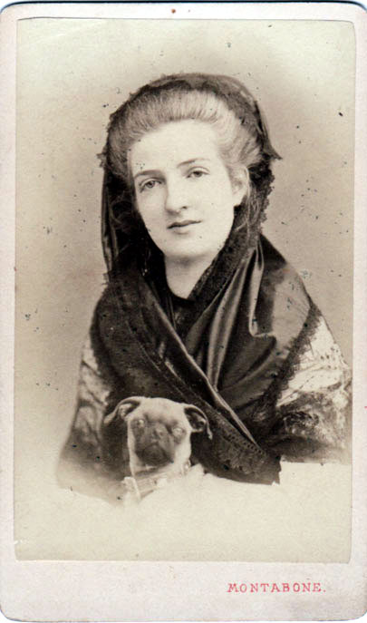 Luigi Montabone (18..-1877) - Margherita, queen of Italy (1851-1926). In consideration of the mourning dress worn by the sitter and of his young age, this imgage could date from the period of the death of Victor Emmanuel II of Italy, in 1878. In this case, the image should be given to Luigi Montabone's heirs, since Luigi had died in 1877.